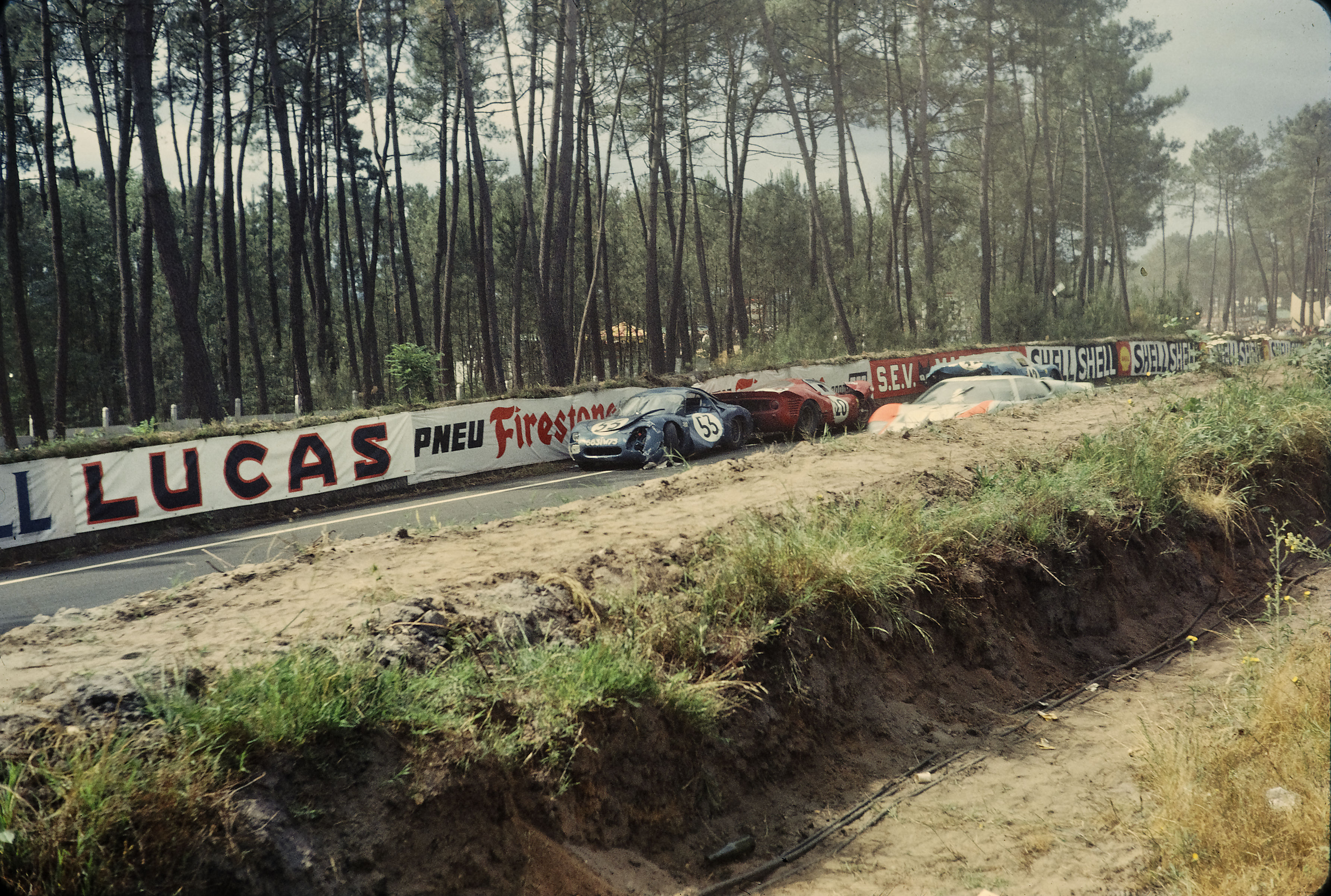 1966 24 Hours of Le Mans.